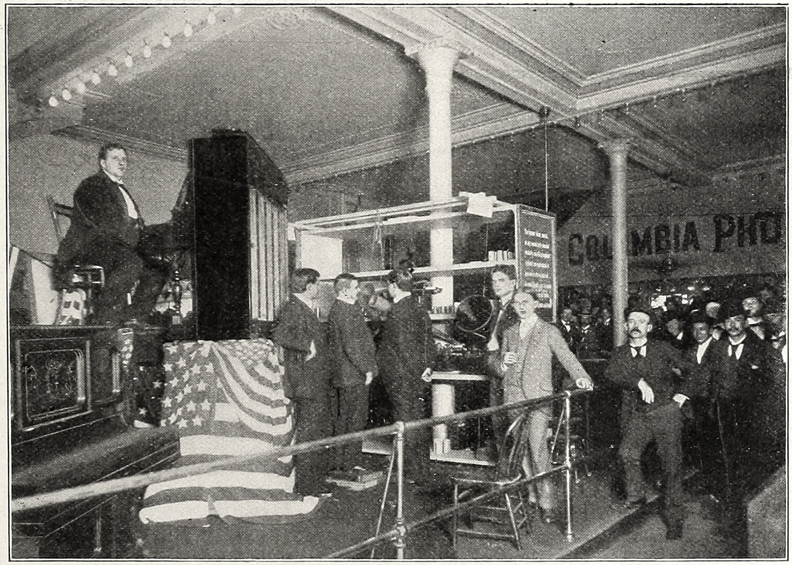 Studio of the Columbia Phonograph Company, September 1898. Fred Hylands at piano.